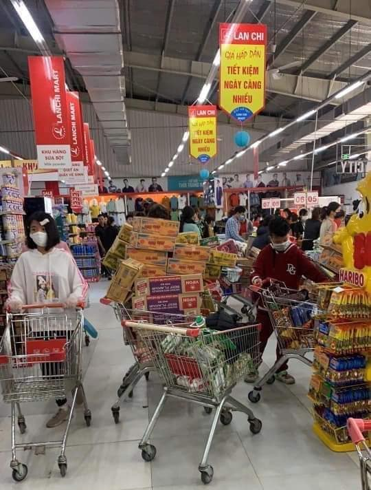 People rushed to buy stocks.